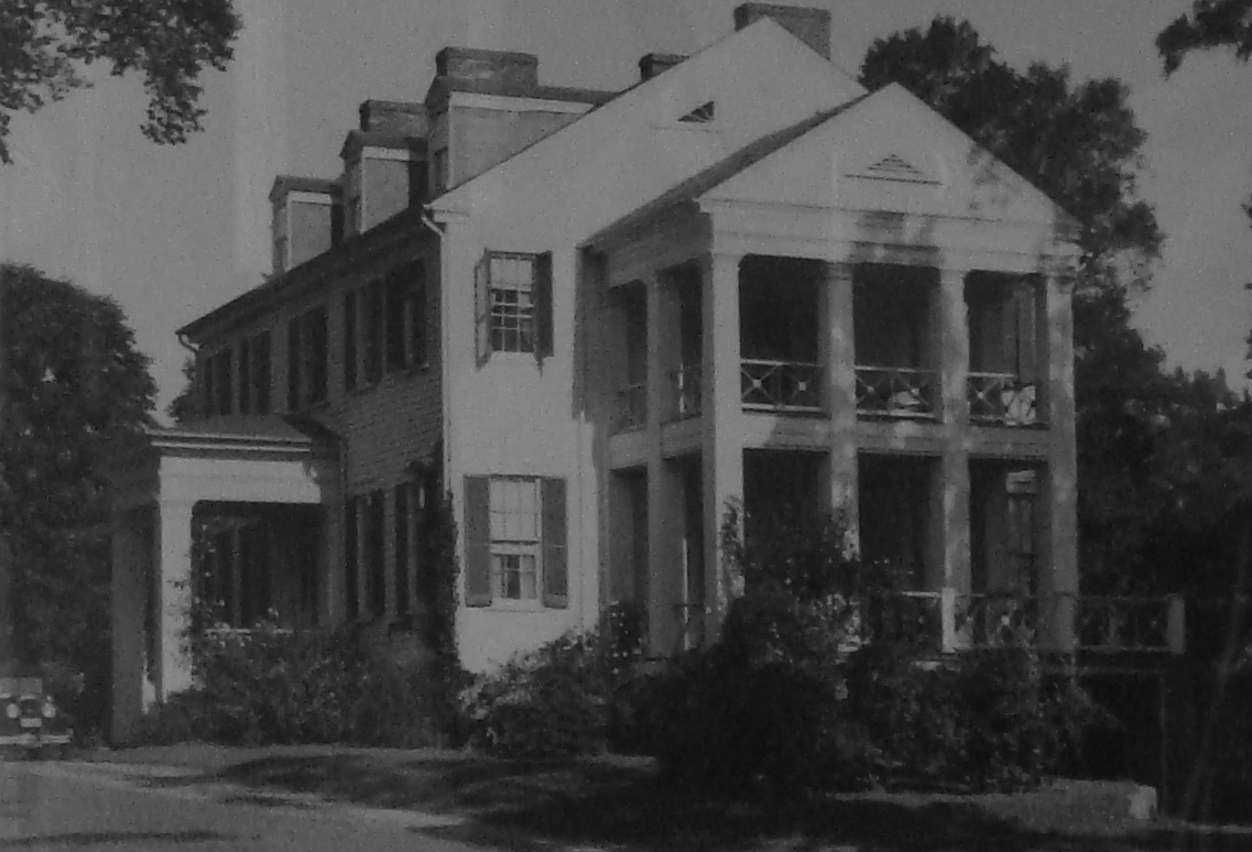 Photograph of original plantation house at Dodon